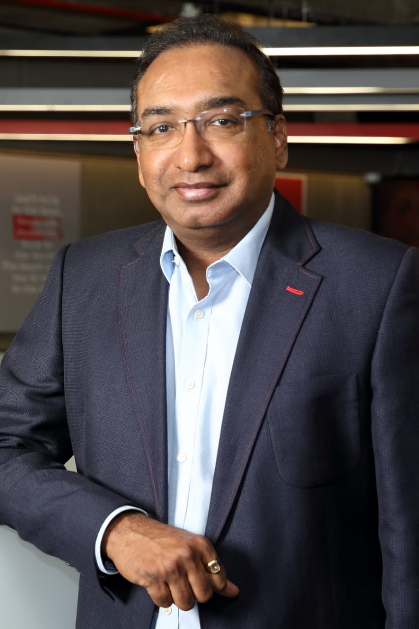 This is a picture of Sameer Nair